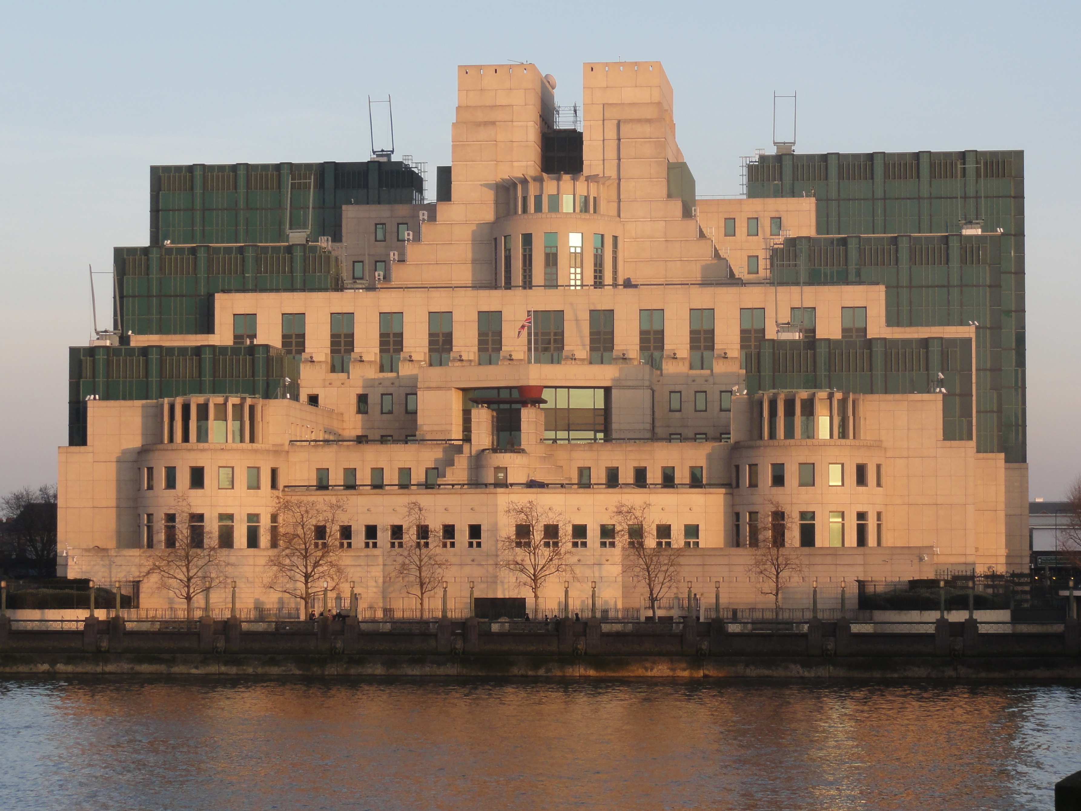 The Secret Intelligence Services building (home of MI5 and other assorted spooks) in Vauxhall.